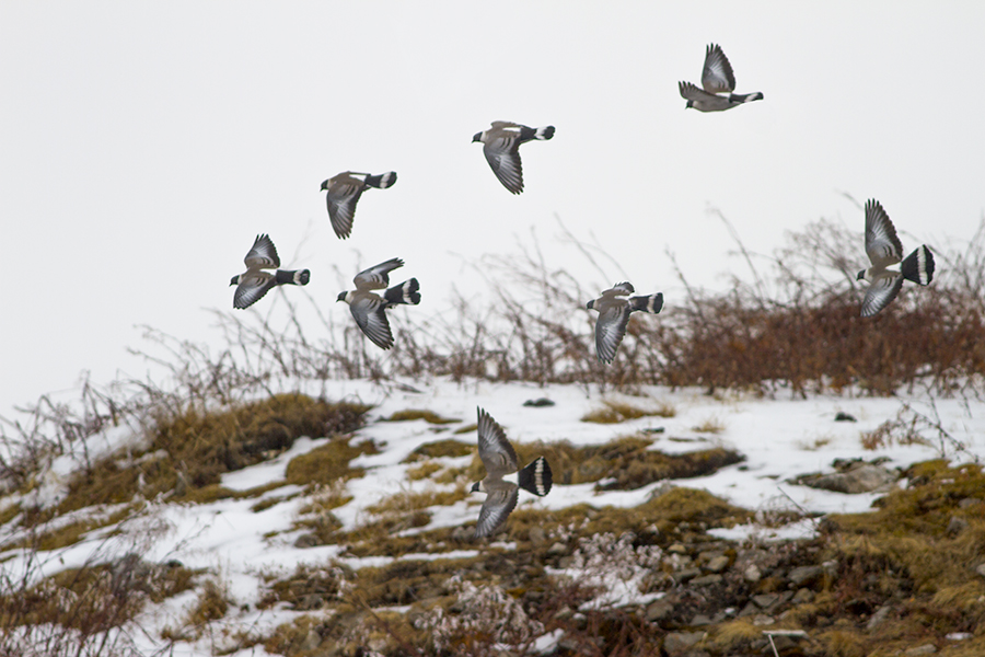 The flock of Snow Pigeon flying at Pangolakha Wildlife Sanctuary in Sikkim, India was photographed on 11.02.2016.